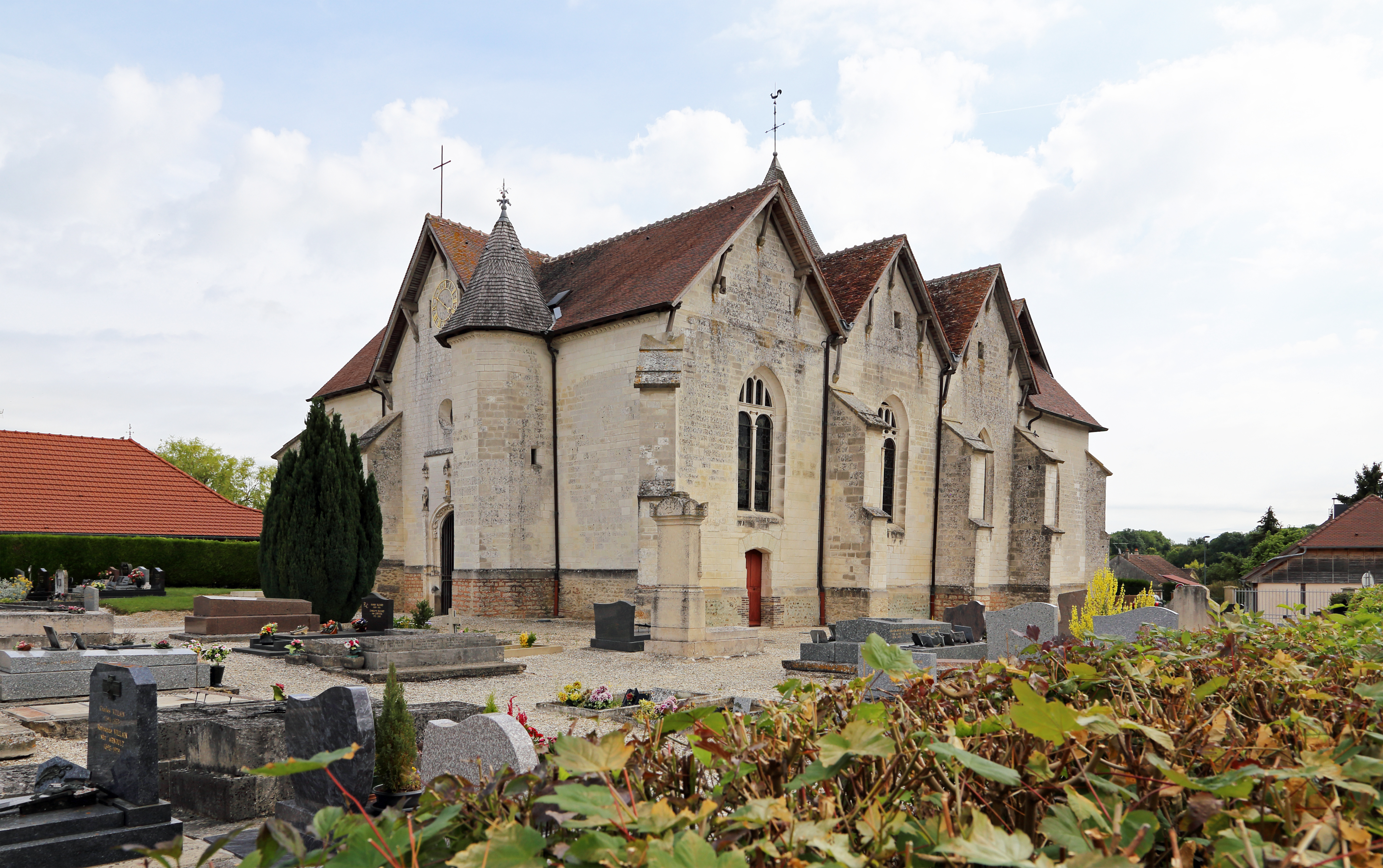 Luyères (Aube department, France): Saint Julien church